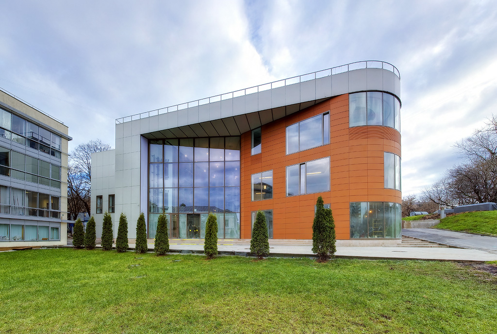 Fitness-center near Taganka